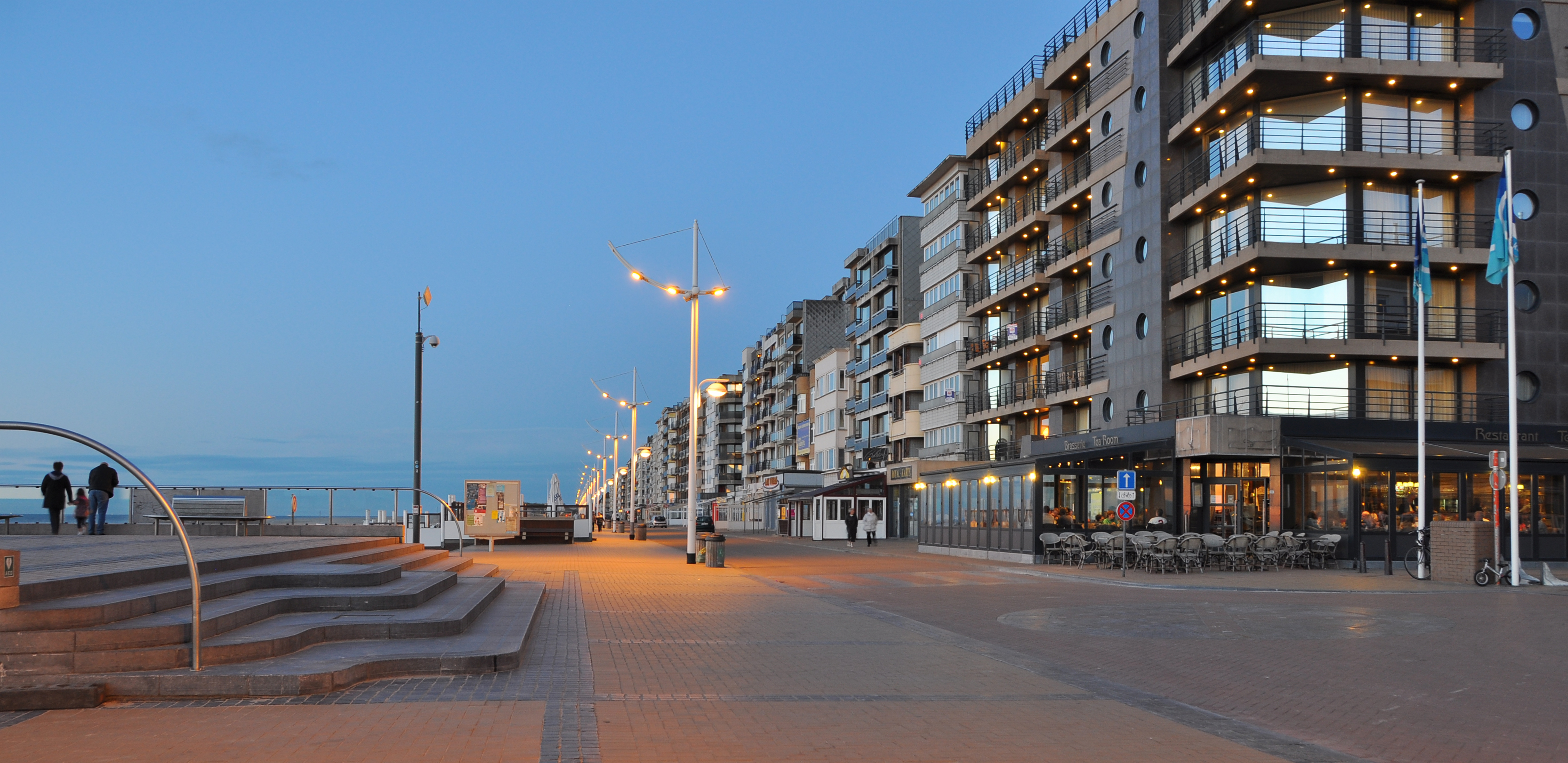 Koksijde (Belgium): the sea promenade in the evening